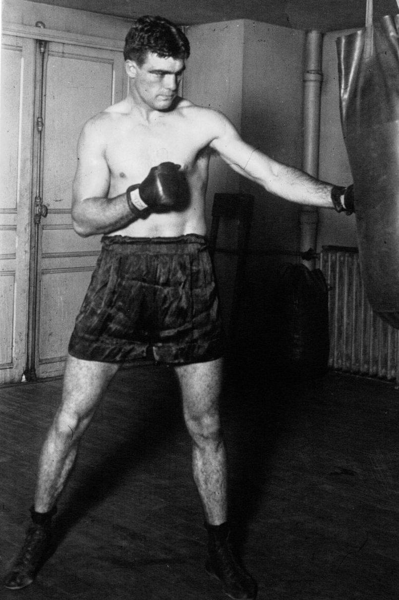 Portrait of American boxer Young Stribling (in boxing stance): [press photograph]